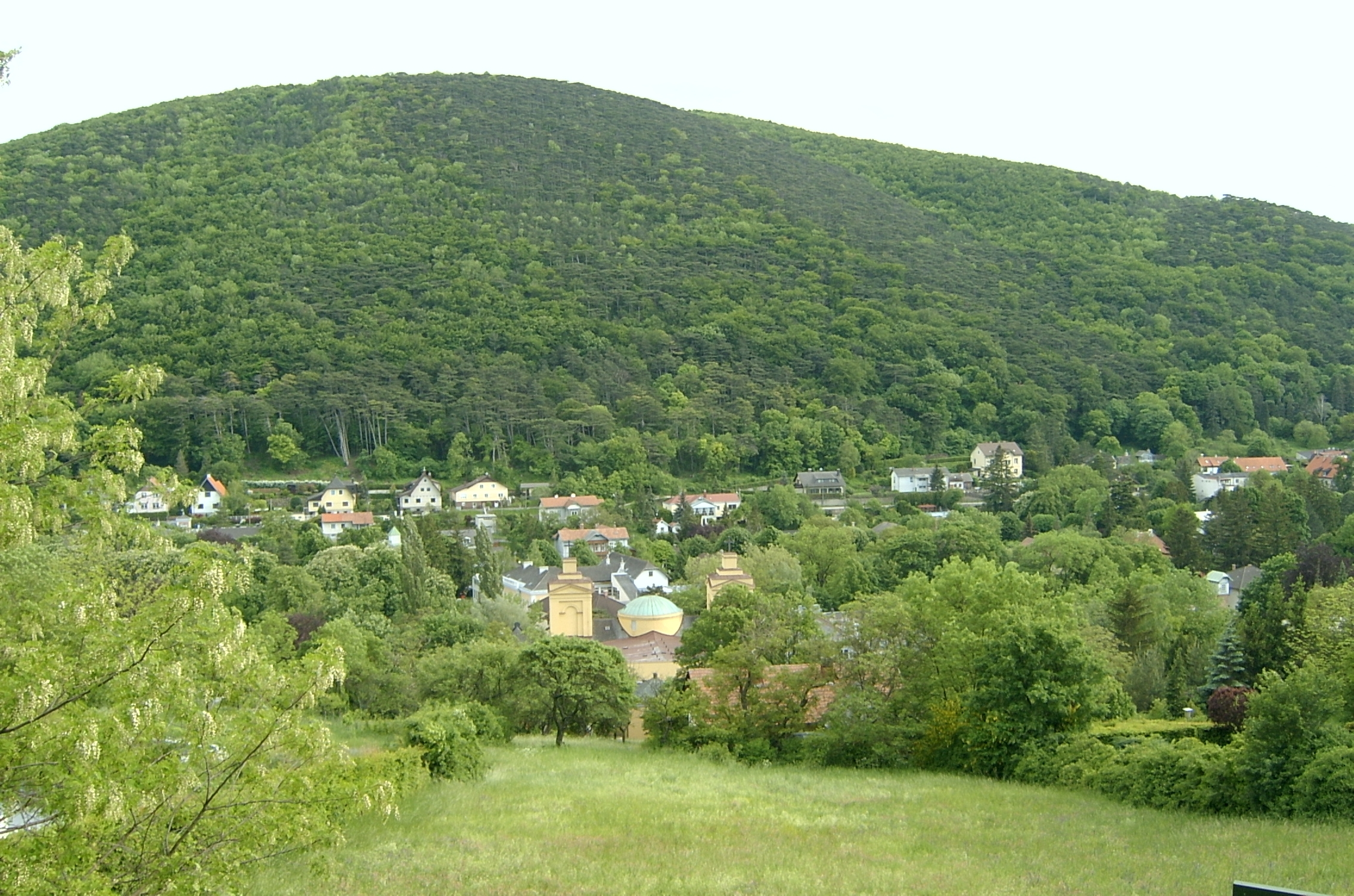 View to Hinterbruehl, south of Vienna in Lower Austria, in the middle the church